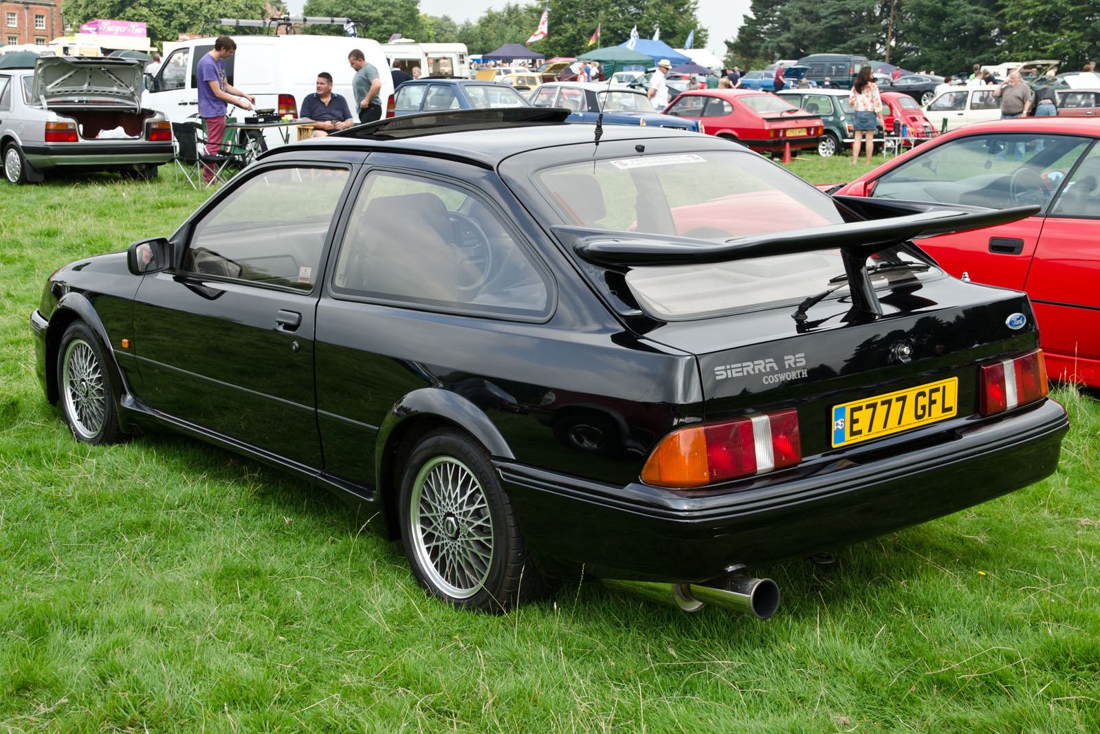 Capesthorne Hall Classic Car Show 25/08/2013